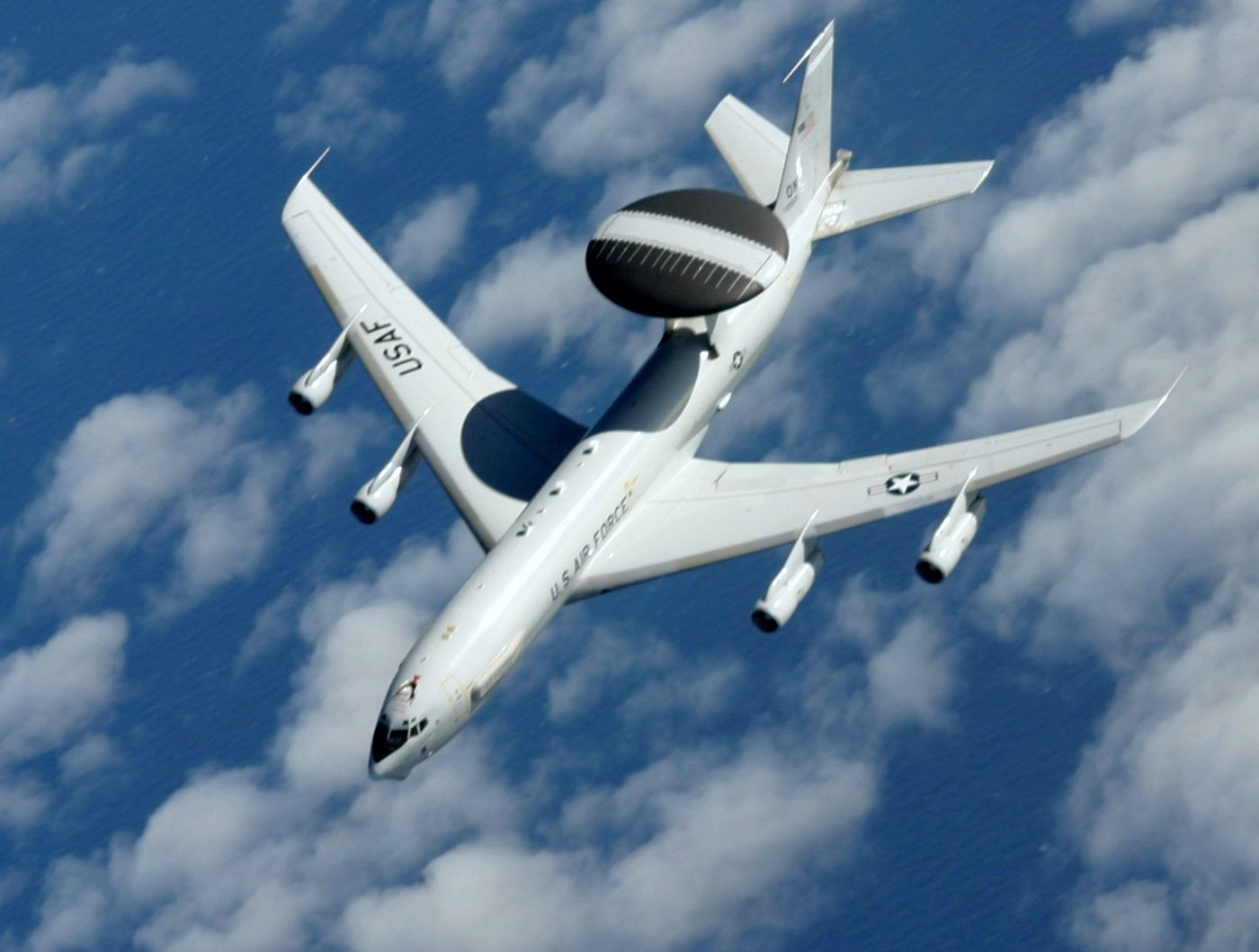 An E-3 Sentry AWACS flies a mission from Tinker Air Force Base, Okla. Due to the high demand for their unique capabilities; the E-3 has been deployed almost continually for the past 29 years.